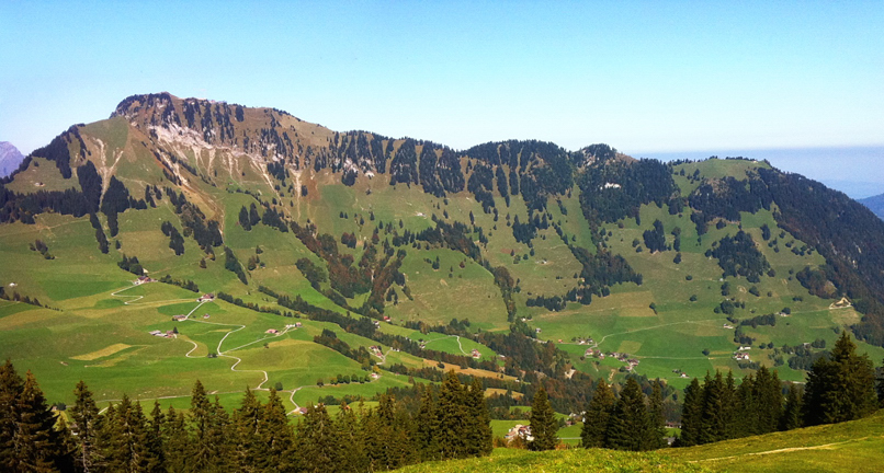 Wiesenberg seen from Gummenalp